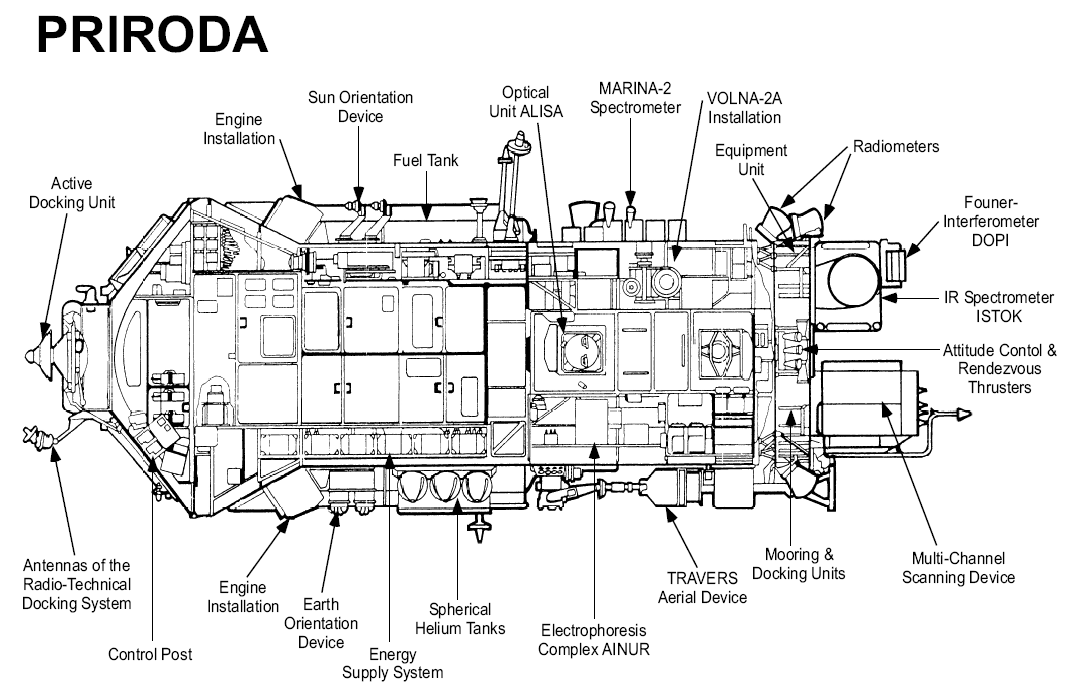 A diagram of Priroda, the seventh and final module of the Russian space station Mir.